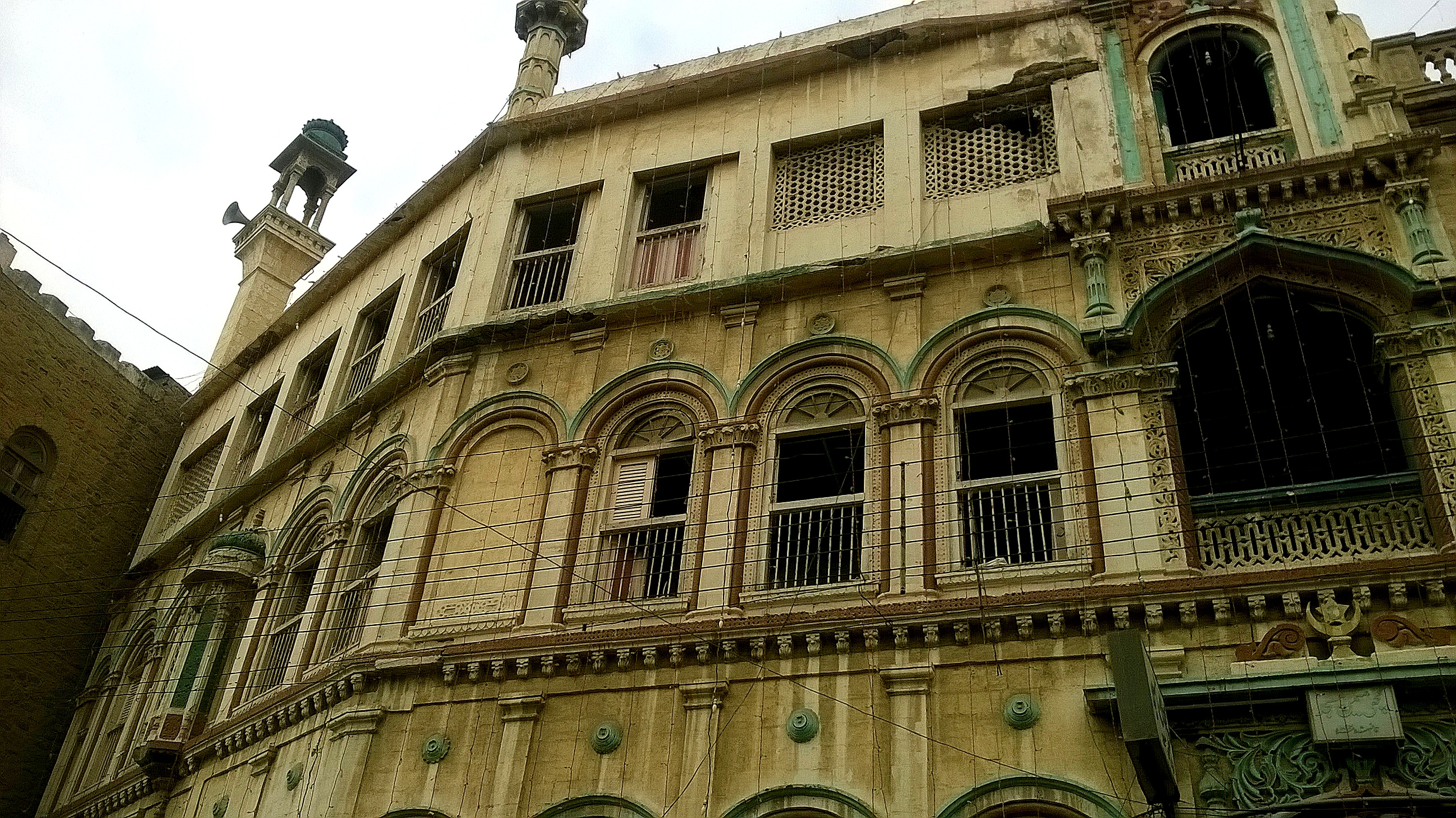 Katchi Memon Masjid This is a photo of a monument in Pakistan identified as the SD-P-136